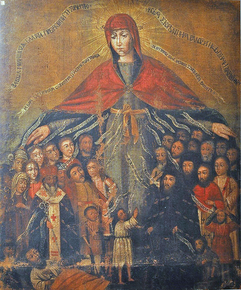 Icon of the Virgin of Mercy, from a church in the town of Stara Sil', Ukraine. Early 17 Century